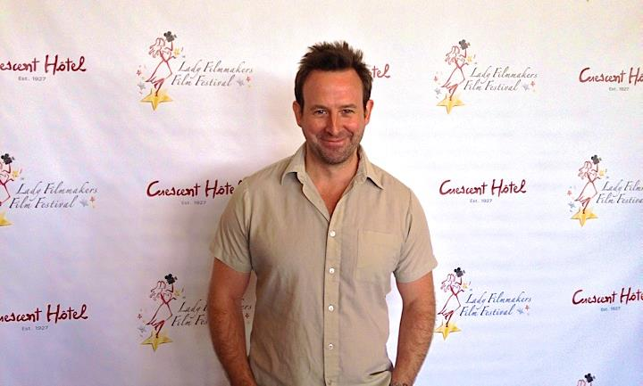 Robert Bagnell at film festival